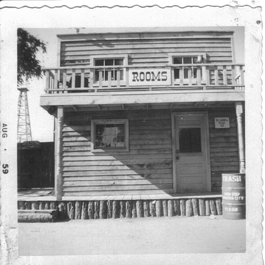 I took picture with Kodak Brownie Hawkeye camera.